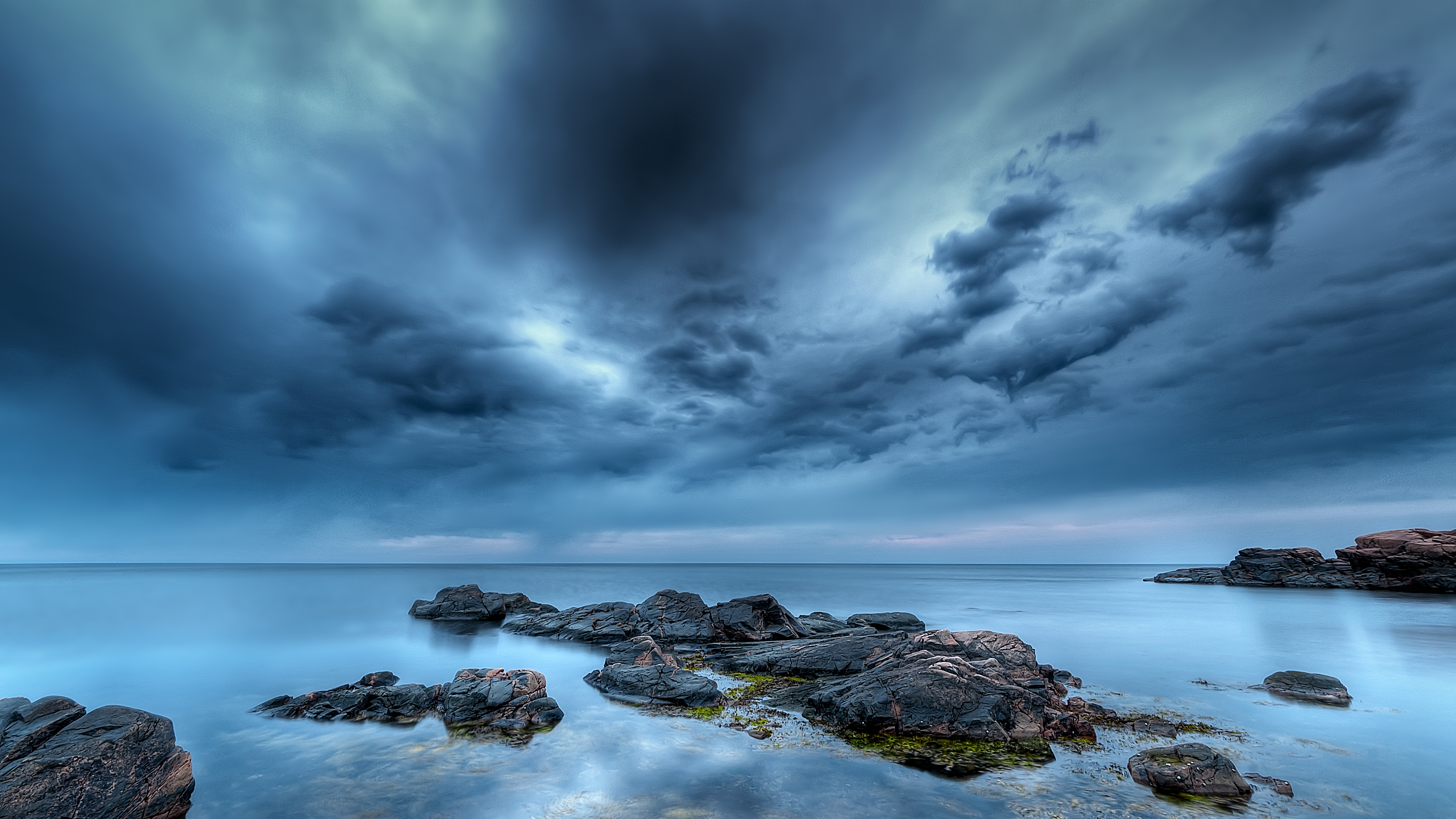 A view out over the ocean from Hovs Hallar